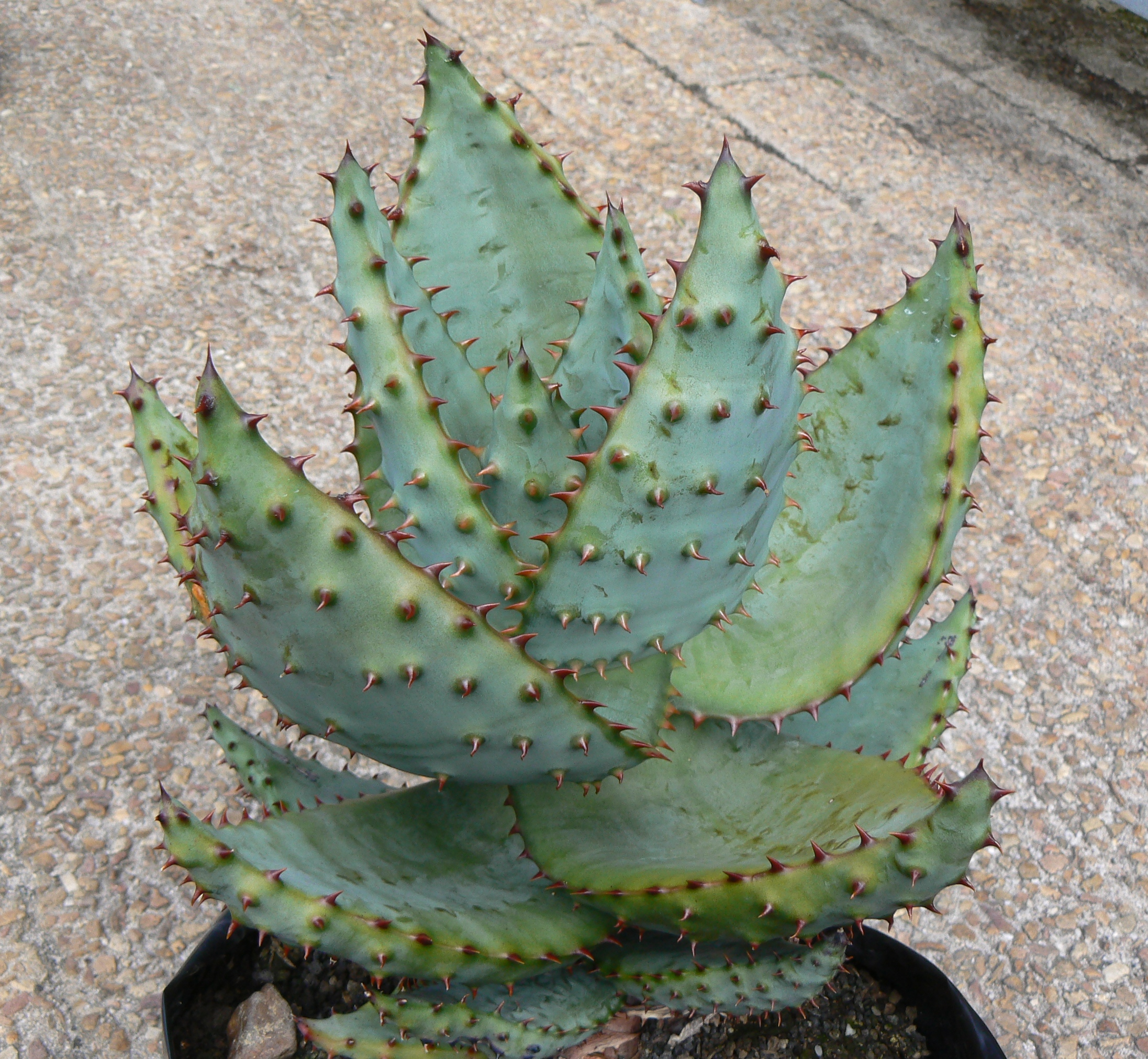 Juvenile Aloe marlothii. Photo taken in South Africa.